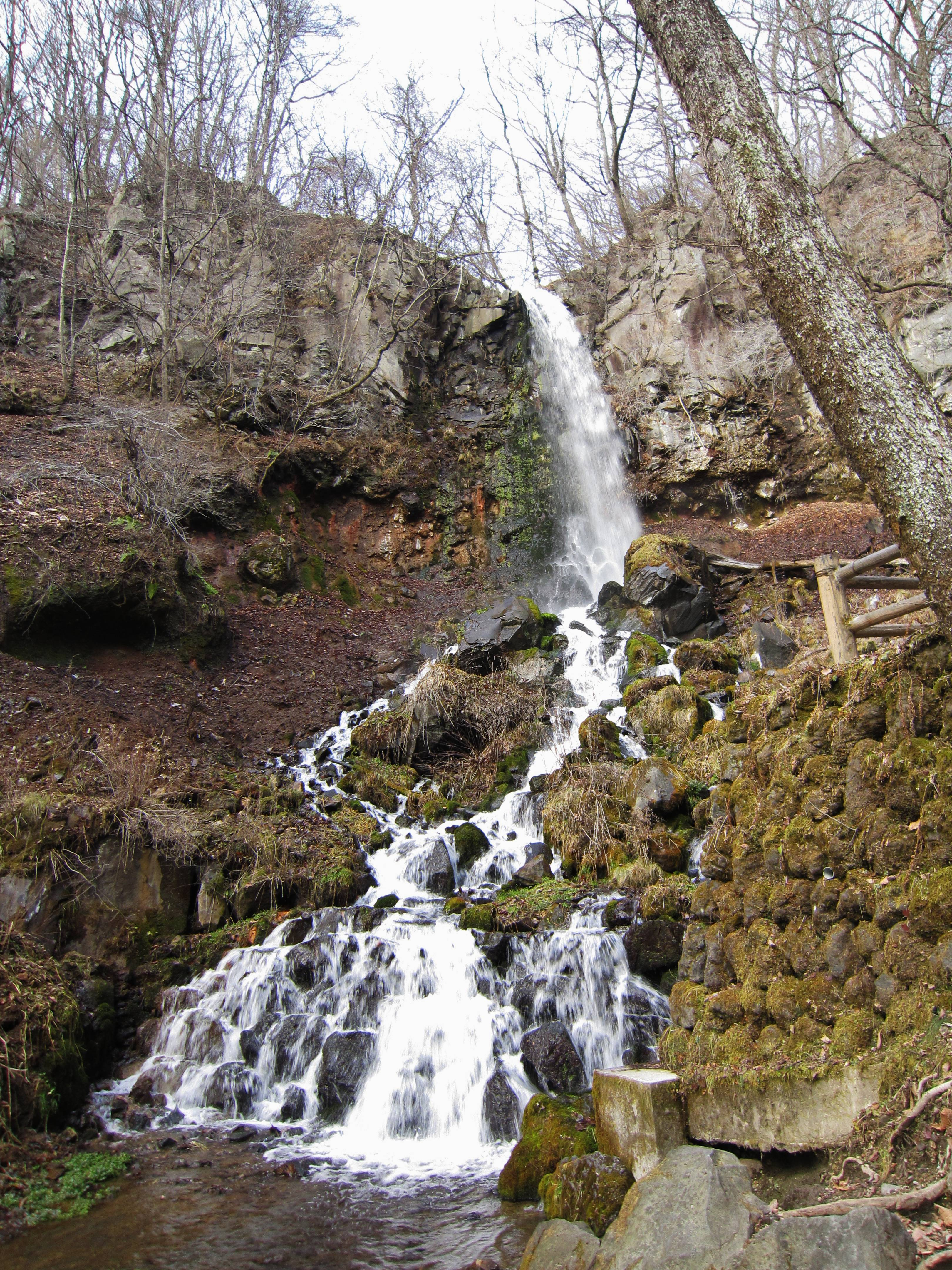 Sengataki Waterfall.